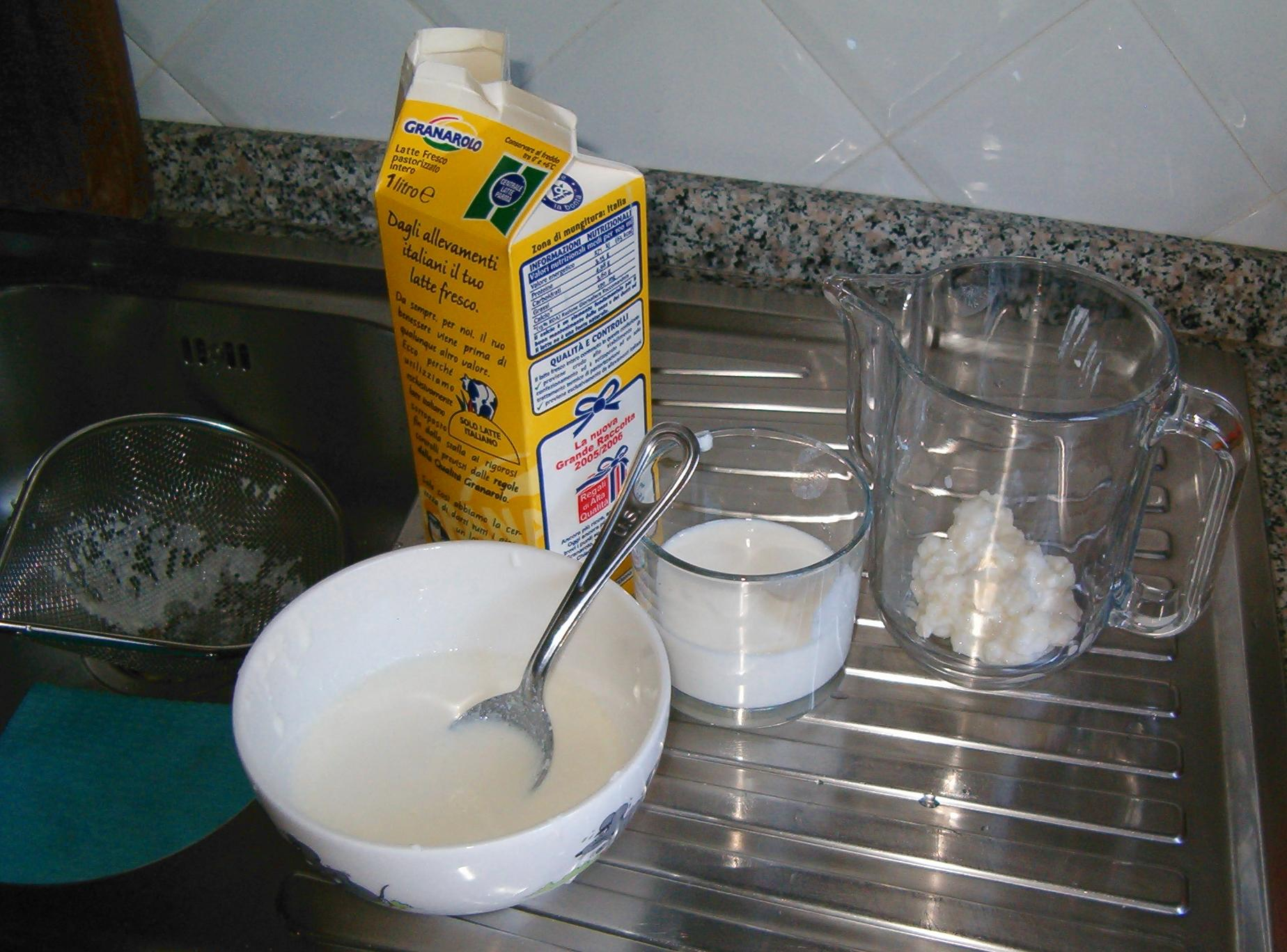 Kefir prepararation